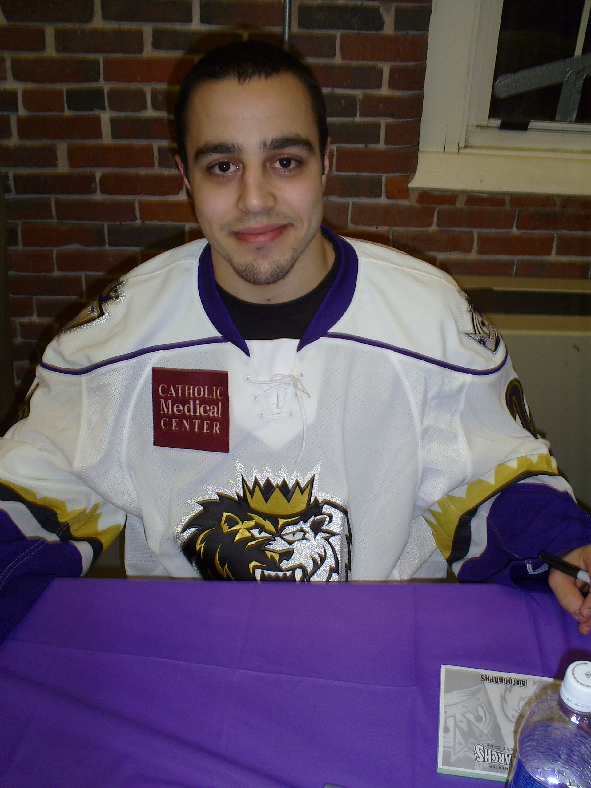 Photo by Craig Michaud.This is Justin in 2009 while with the Manchester Monacrhs